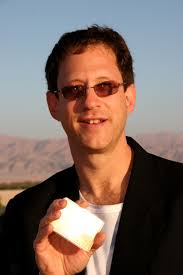 Yosef Abramowitz